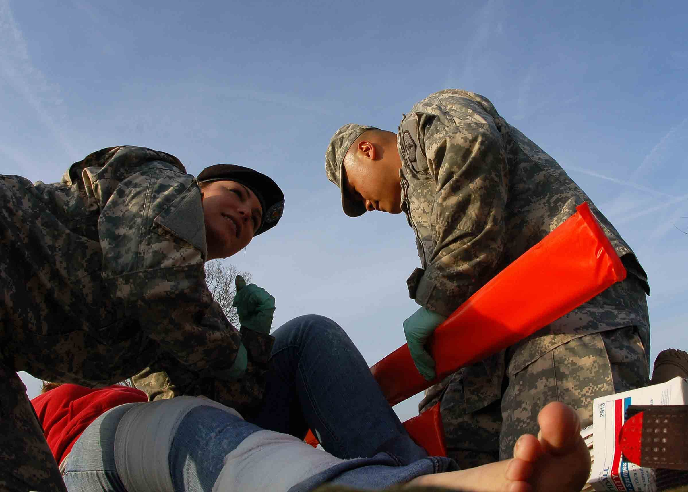 Sgt. Erin Emminger, the battalion medical non-commissioned officer for the 76th Brigade Special Troops Battalion, applies direct pressure to a gunshot wound while Staff Sgt. Arcenio Rumbaoa Jr., a senior medic for the Indiana Medical Detachment prepares splints during training for emergency medical technicians and first responders at Camp Atterbury Joint Maneuver Training Center, March 31.